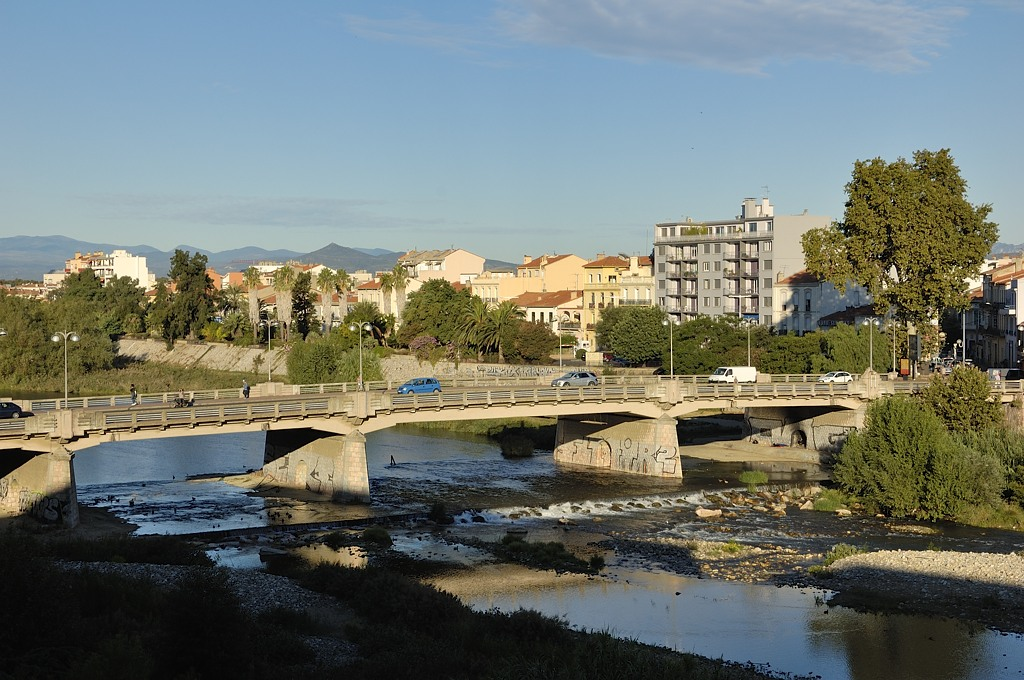 Têt in Perpignan